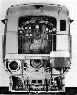 The rear end of the Class 25 engine. Below the cab floor, at left, the pipe to conduct spent steam to the condensing tender, and in the centre the mechanical stoker connection